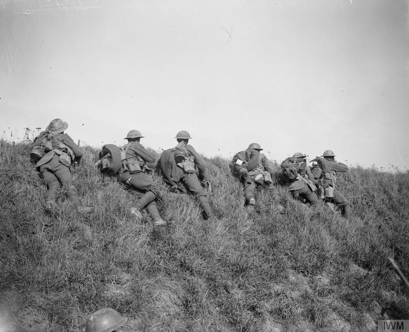 The Hundred Days Offensive, August-november 1918 Pursuit to the Selle. Men of the 4th Battalion, Royal Leicestershire Regiment (46th Division) firing at German snipers and machine gunners on the edge of the Bois de Requerval. Near Bohain, 10th October 1918.